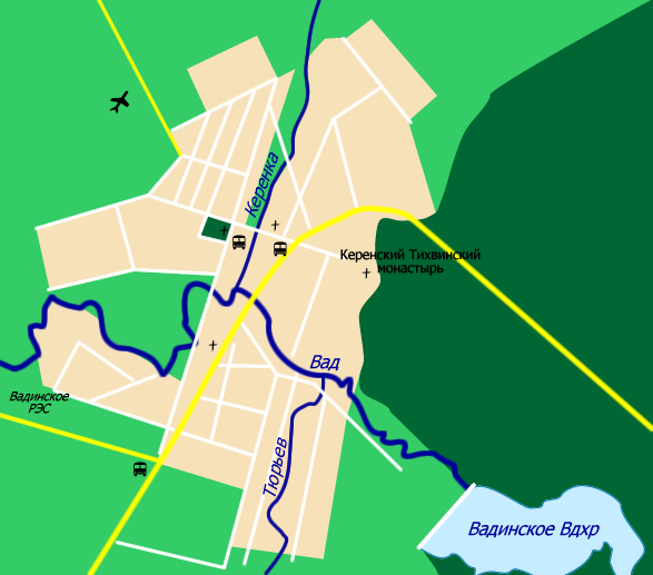 Vadinsk map